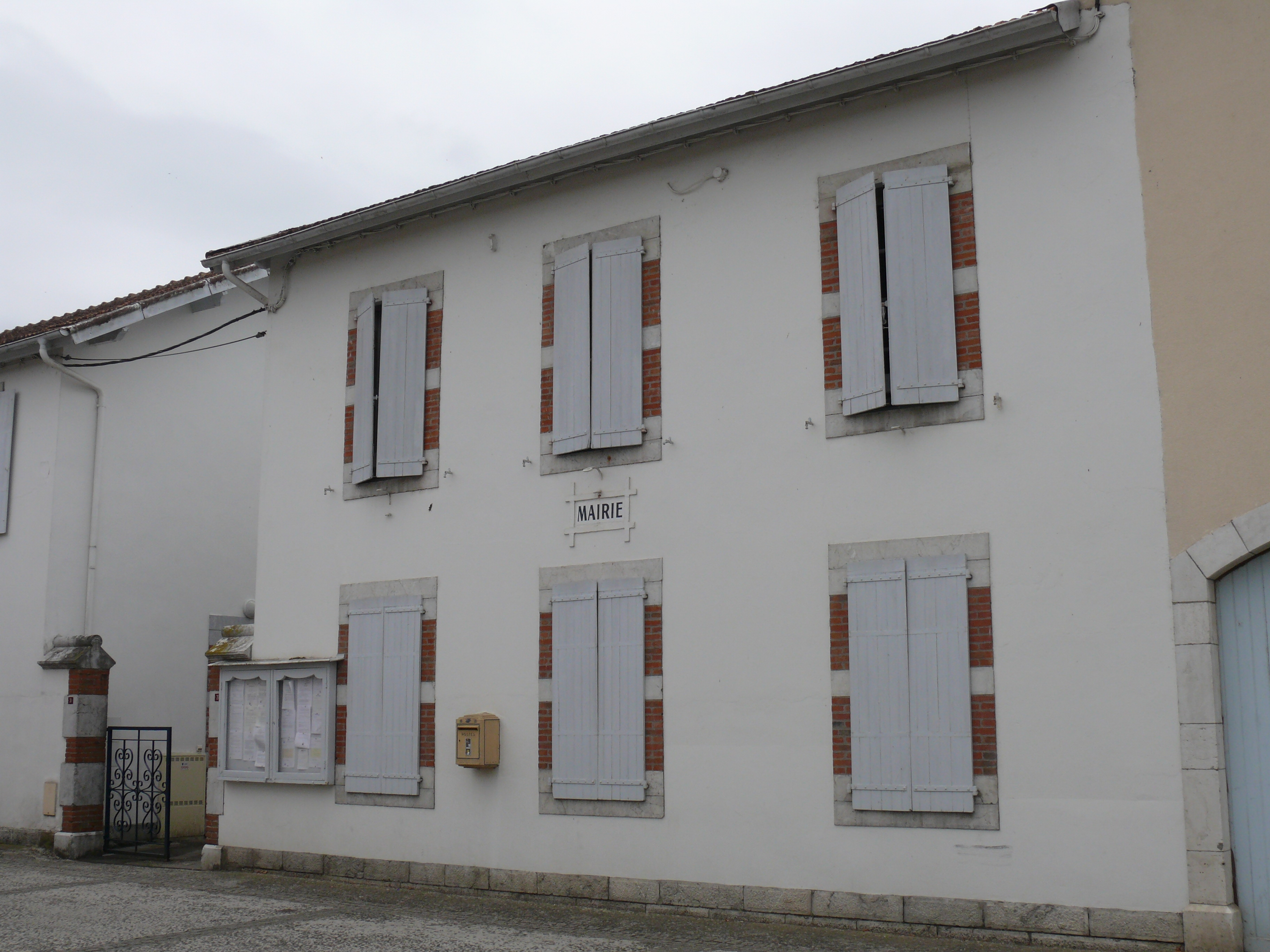 The town hall of Bellocq (Pyrénées-Atlantiques, Aquitaine, France).